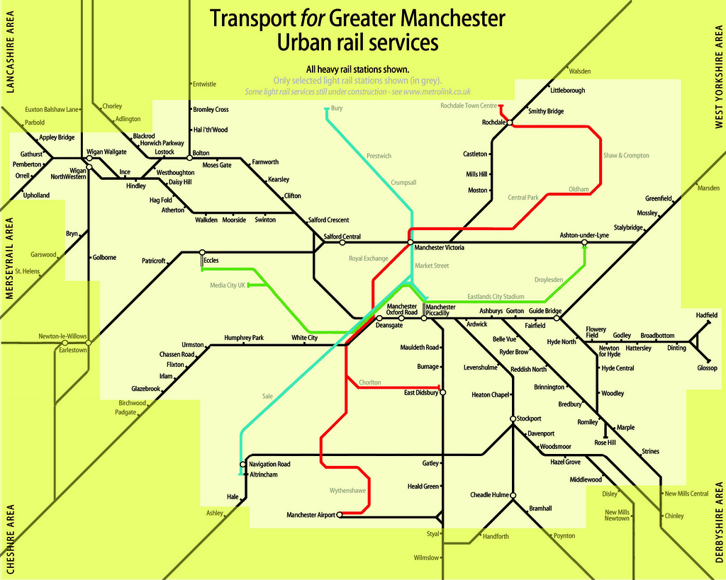 Urban rail in Greater Manchester